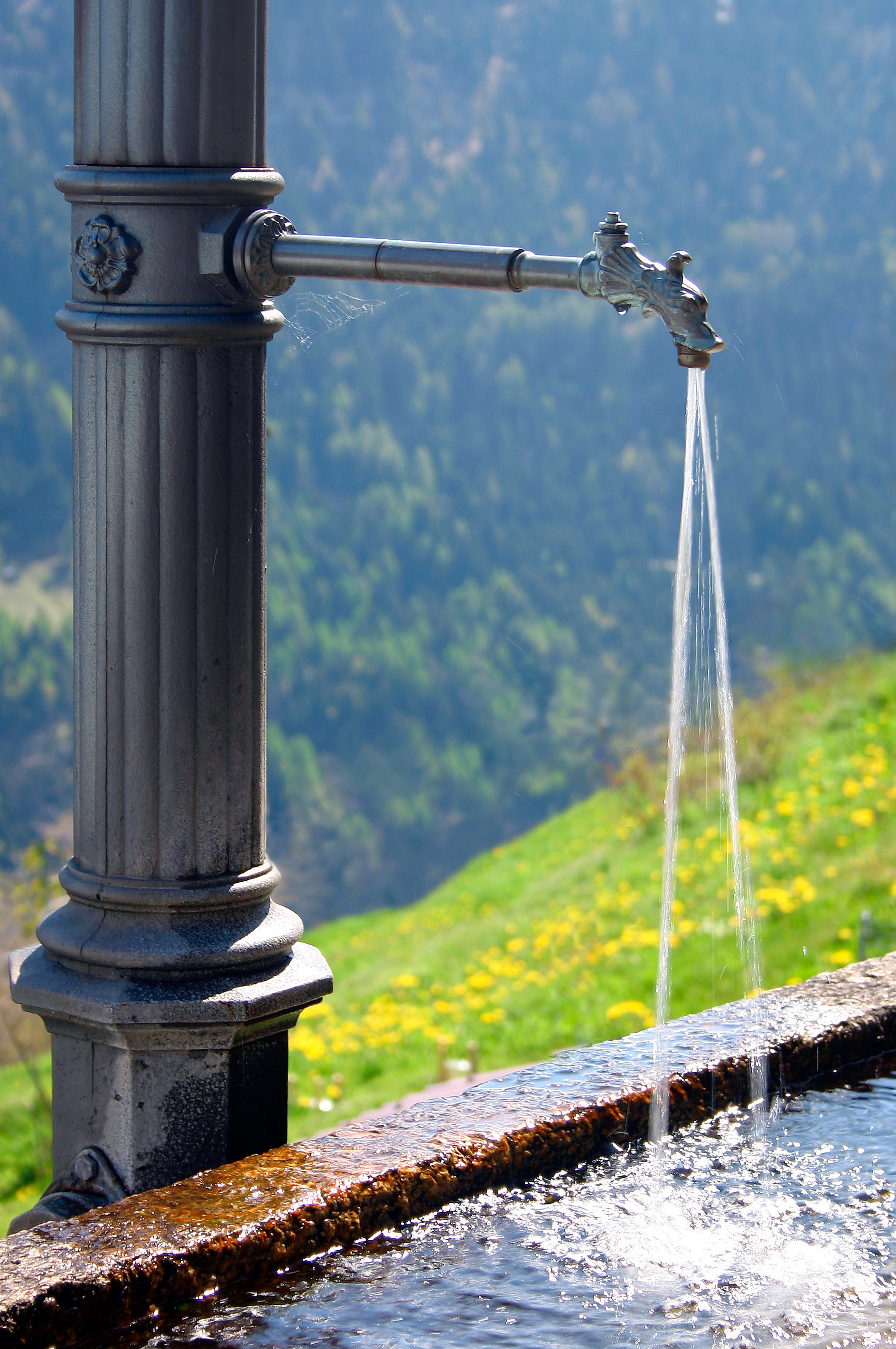 Water fountain found in a small Swiss village. They are used as a drinking water source for people and cattle. Almost every Alpine village has such a water source.